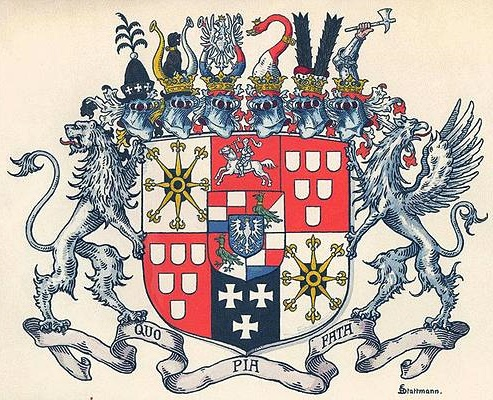 Grosses Familienwappen des deutschen bzw. österreichischen Adelsgeschlechtes der Grafen von Degenfeld-Schonburg